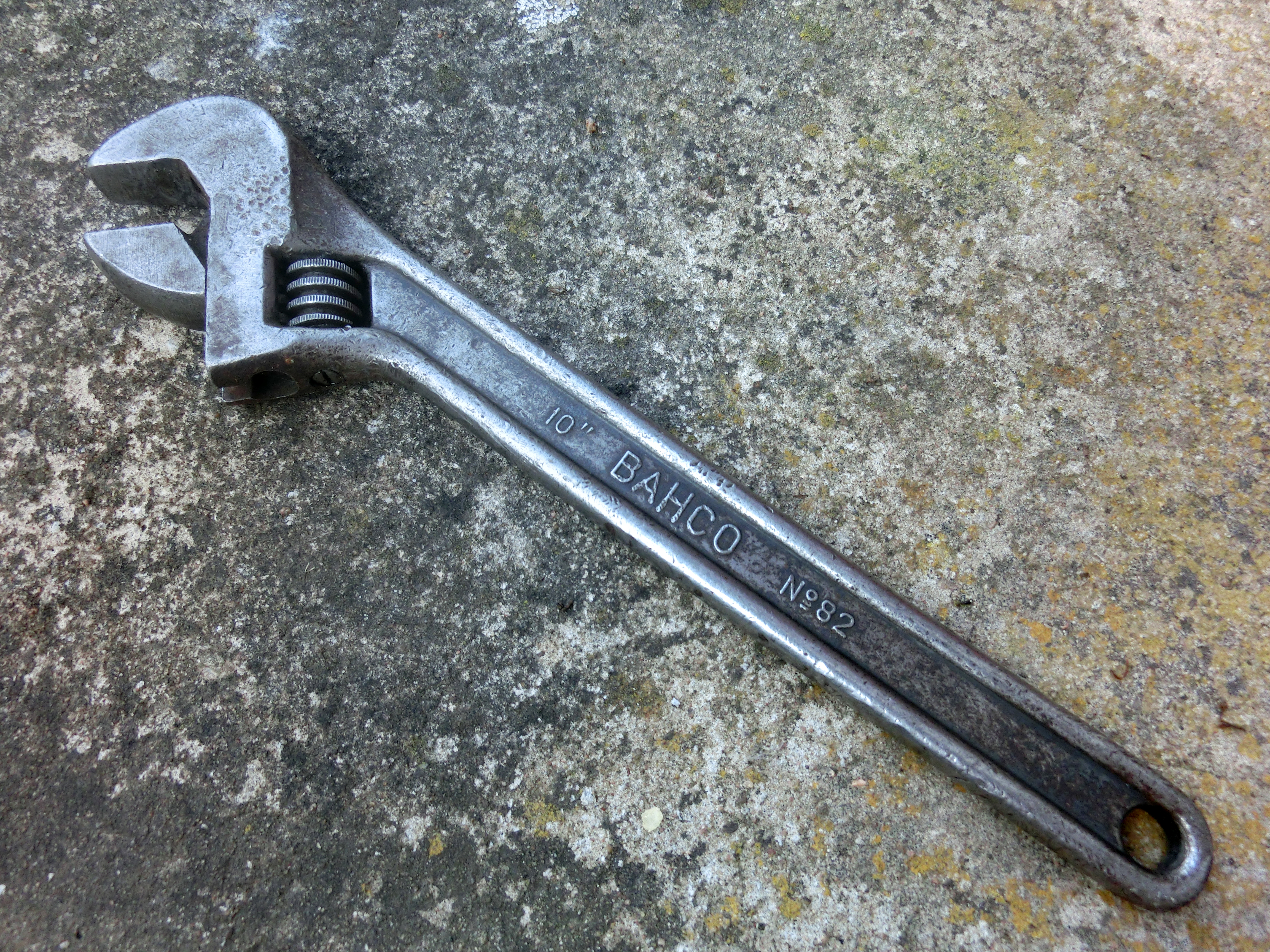 Bahco adjustable wrench